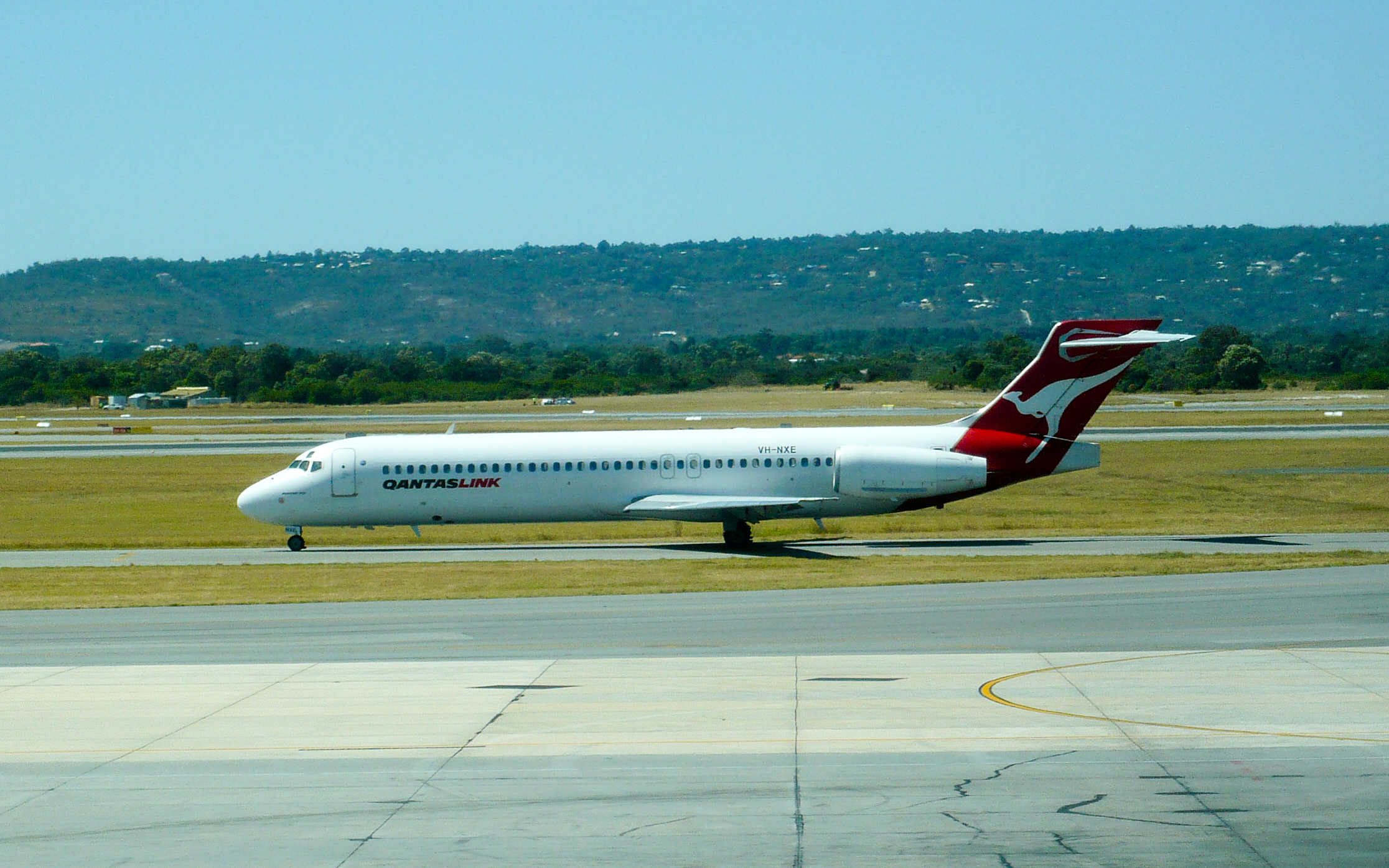 National Jet Systems/Qantaslink B717-200 VH-NXE.